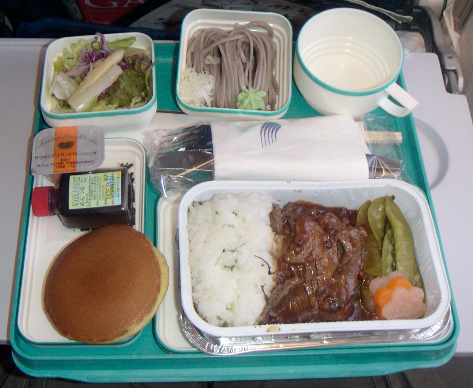 In-flight meal of Garuda Indonesia Air Lines, Tokyo-Denpasar